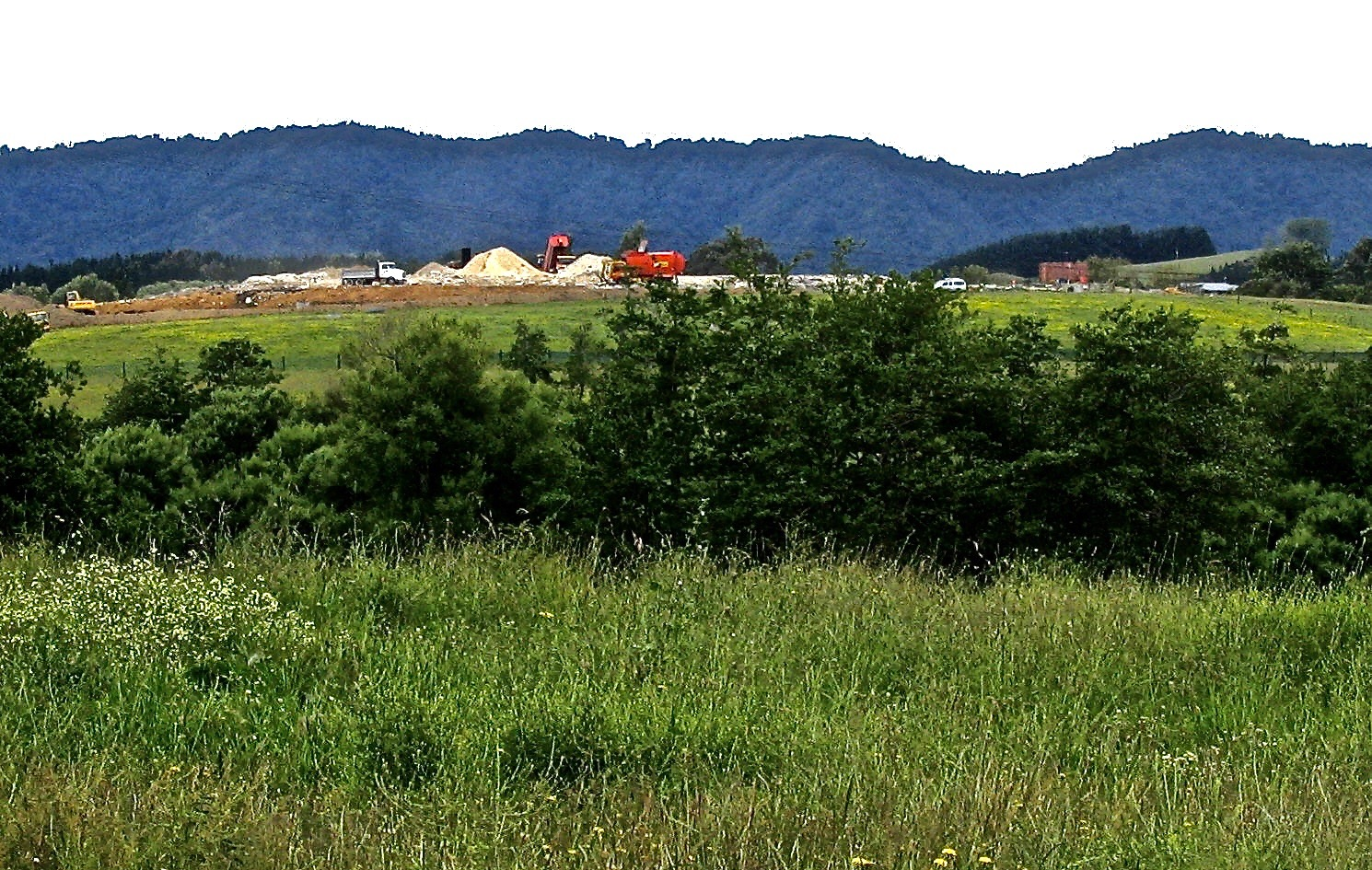 view from SH1